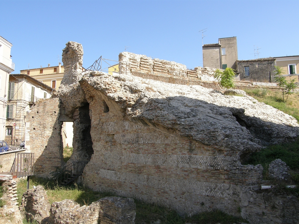 The ruins of the Chieti's Roman theatre. It was built in the first century A.D.